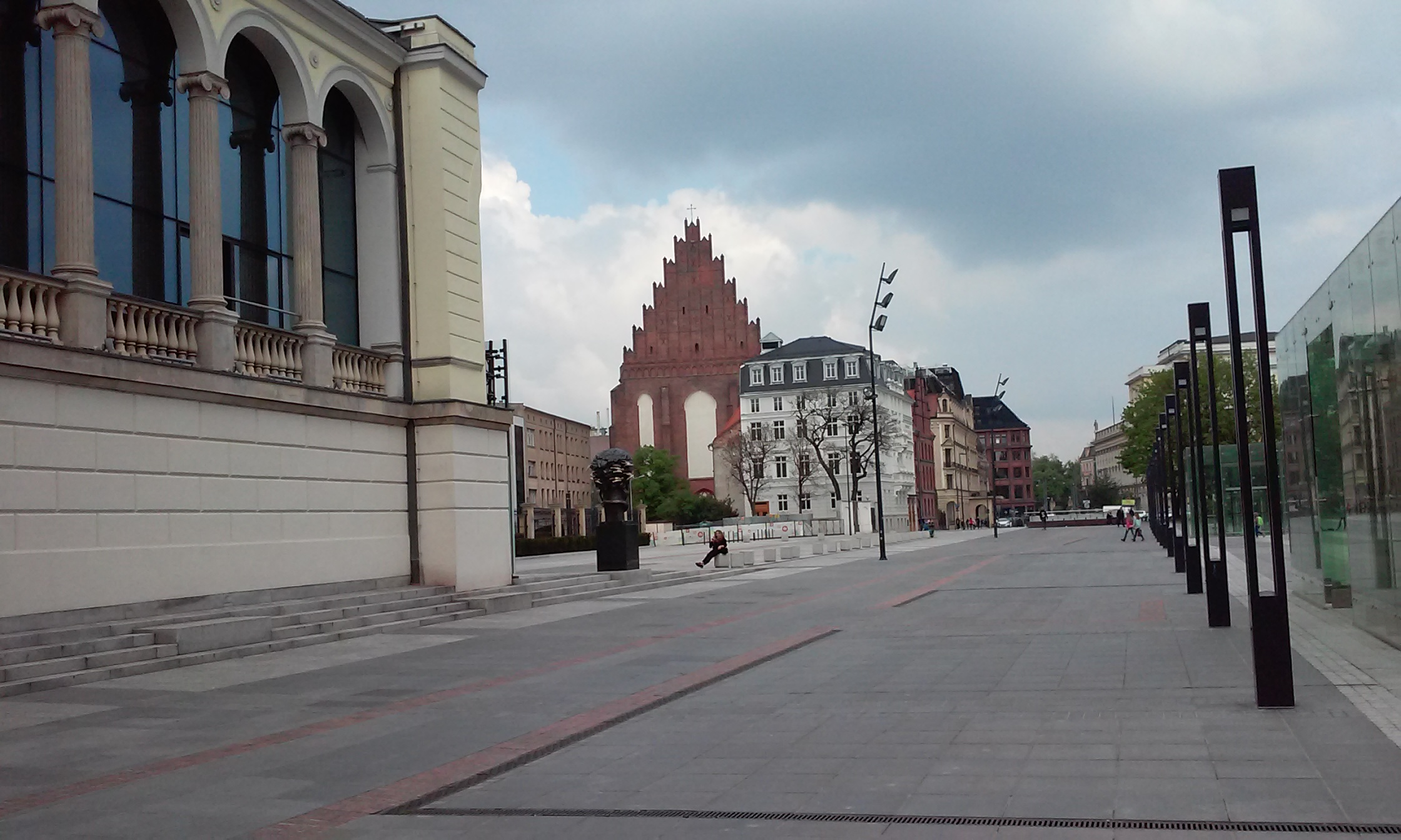 Plac Wolności (Freedom Square) in Wrocław, Poland (2017)